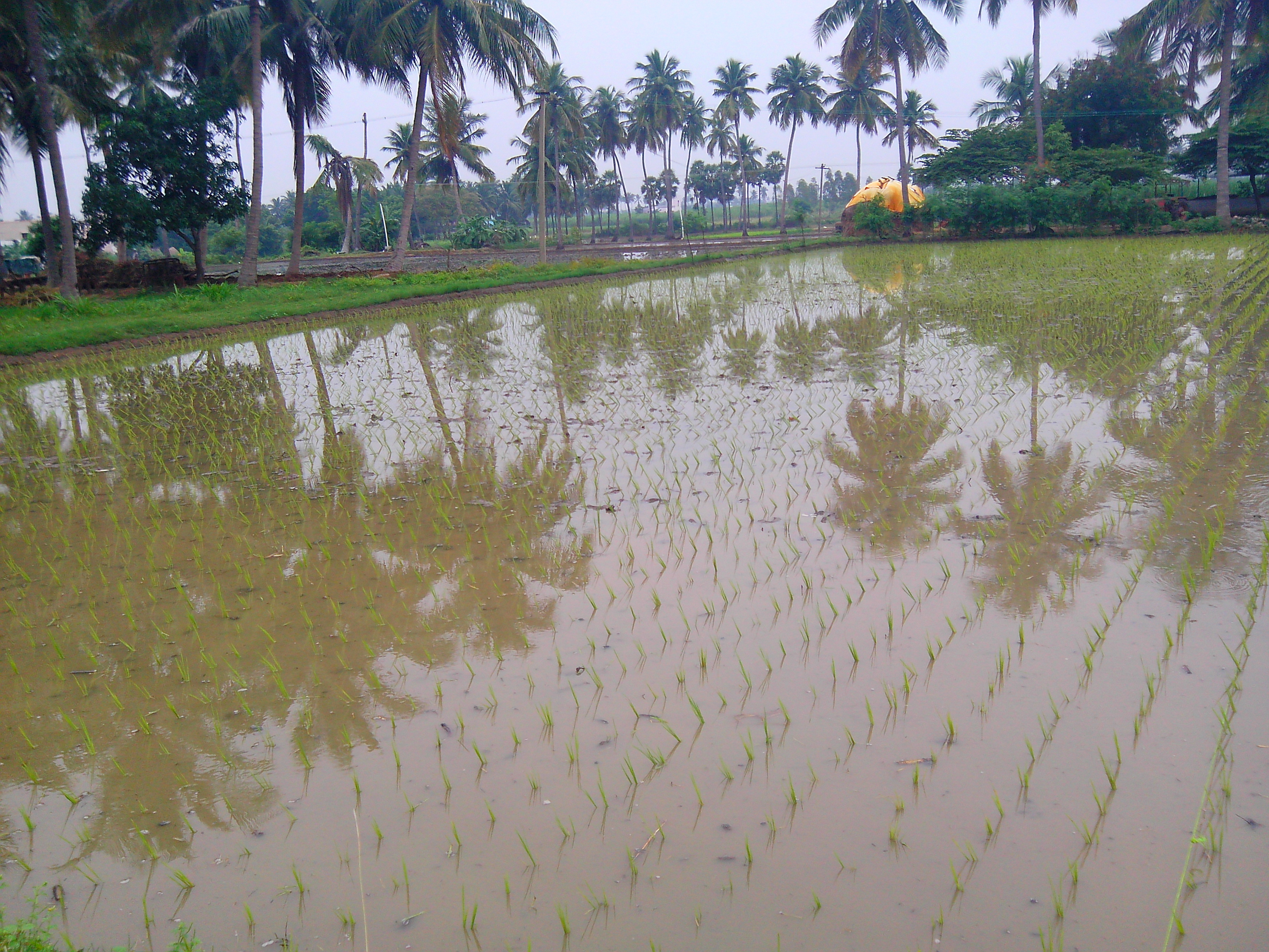 A paddy field with single paddy plant plantation technique.